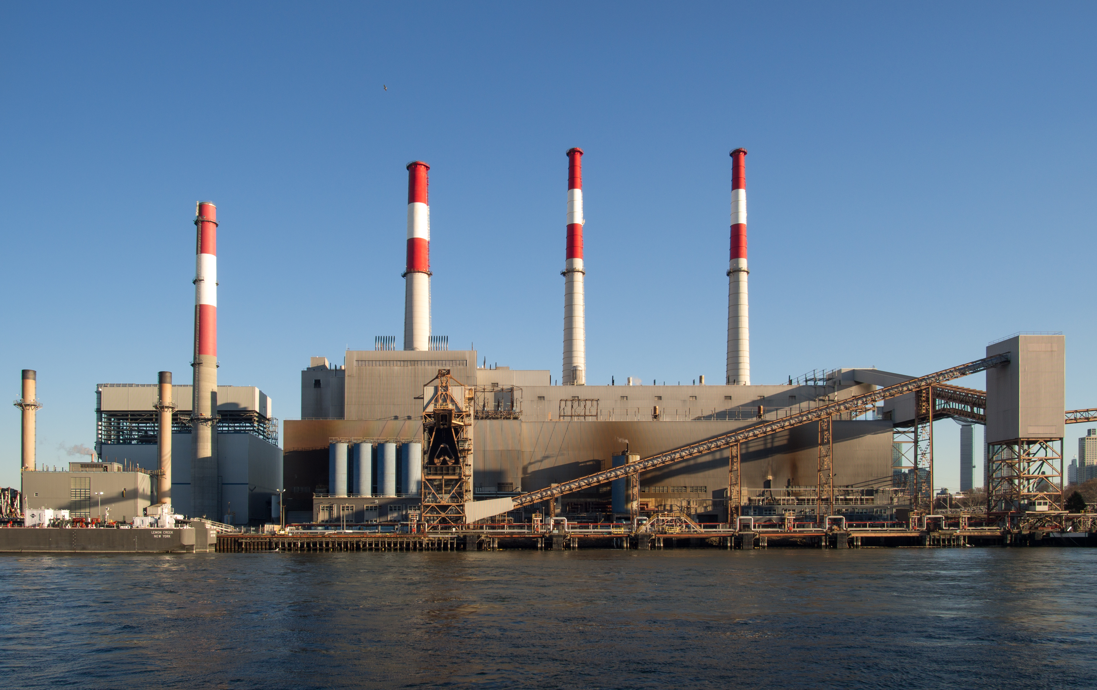 Ravenswood Generating Station in Long Island City, viewed from Roosevelt Island.